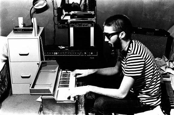 Andrew Collberg